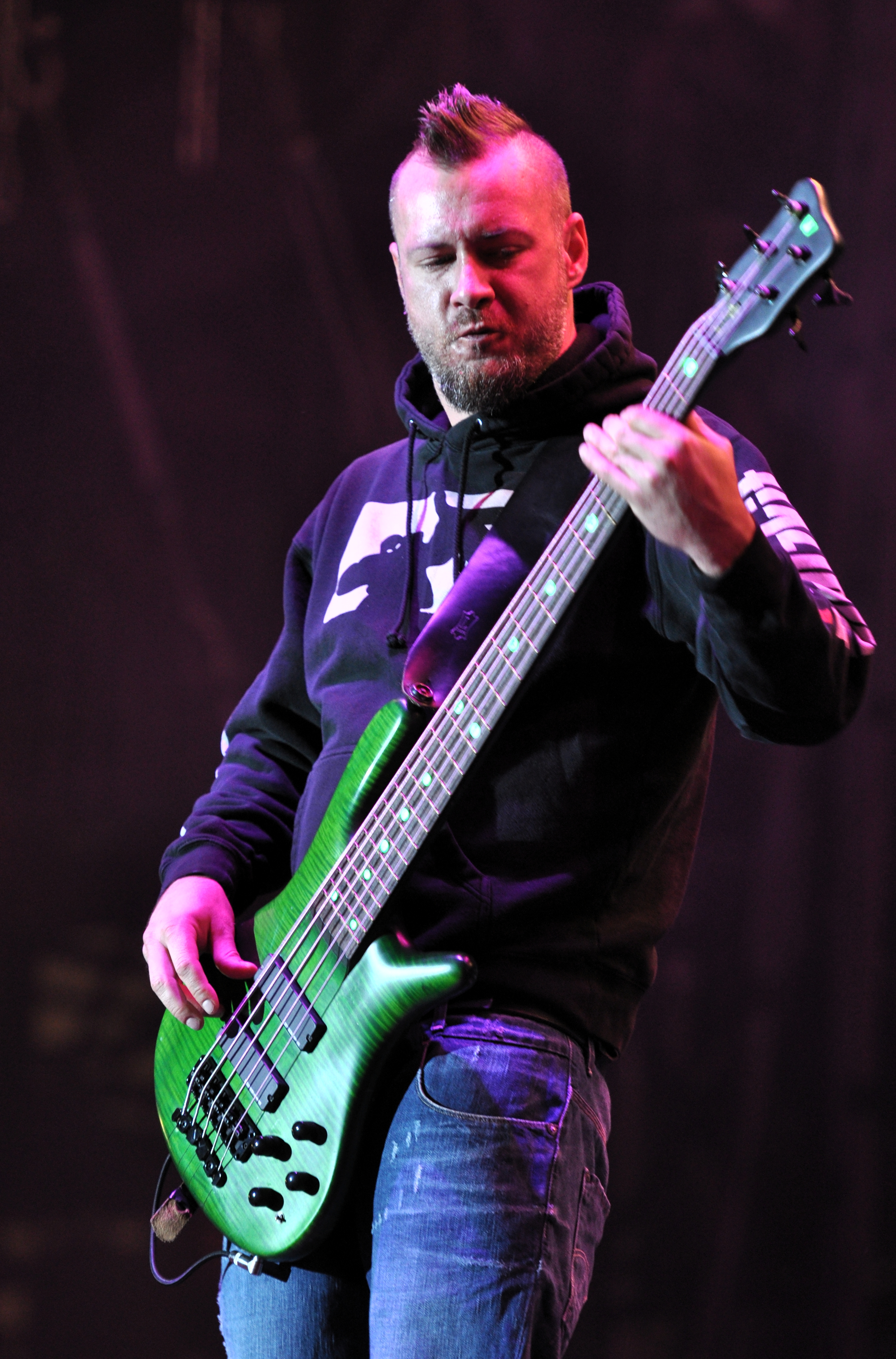 Sam Rivers of Limp Bizkit at Rock am Ring 2013